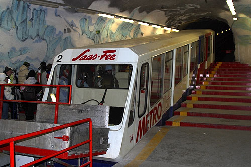 Train of the Metro Alpin, Switzerland